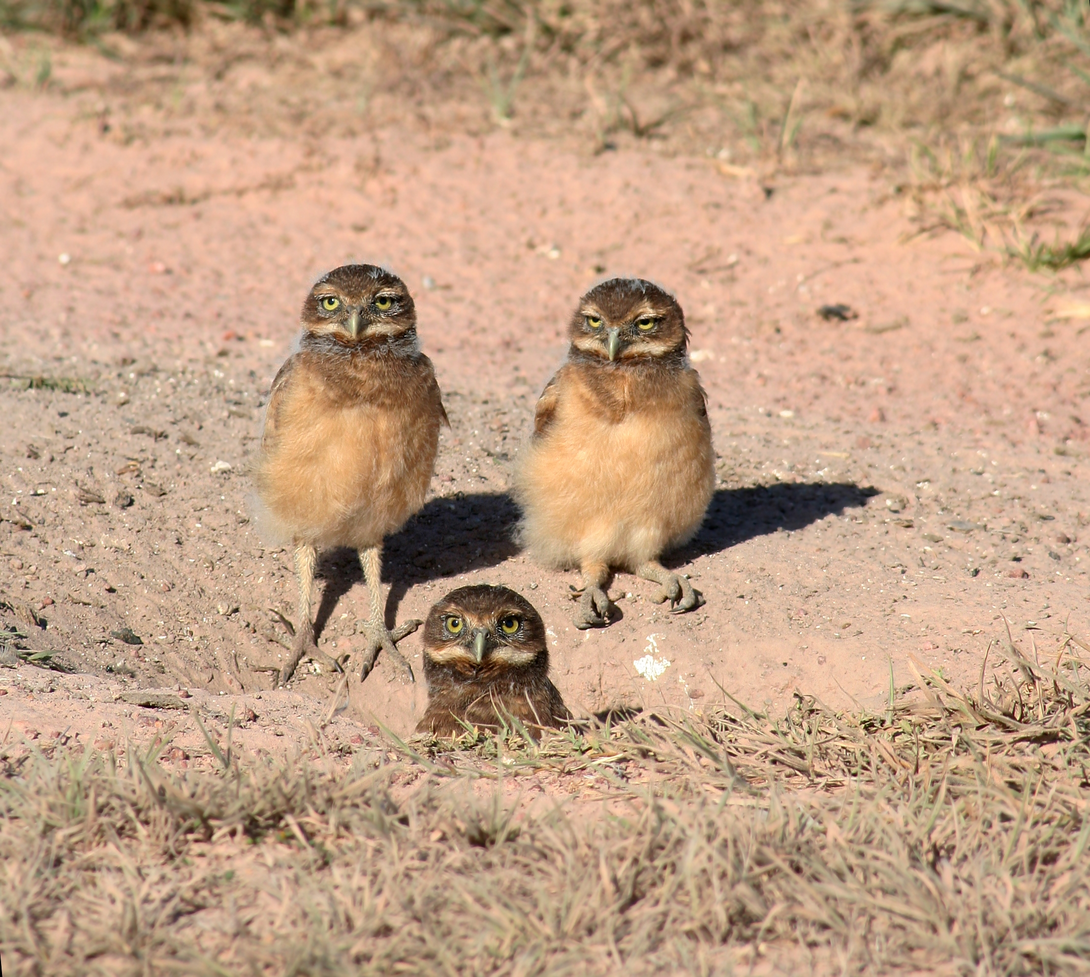 Three juvenile Burrowing Owls (Athene cunicularia) near their Burrow. Image taken in the Modulo Chititera, Apure state plains (Llanos), (Venezuela).